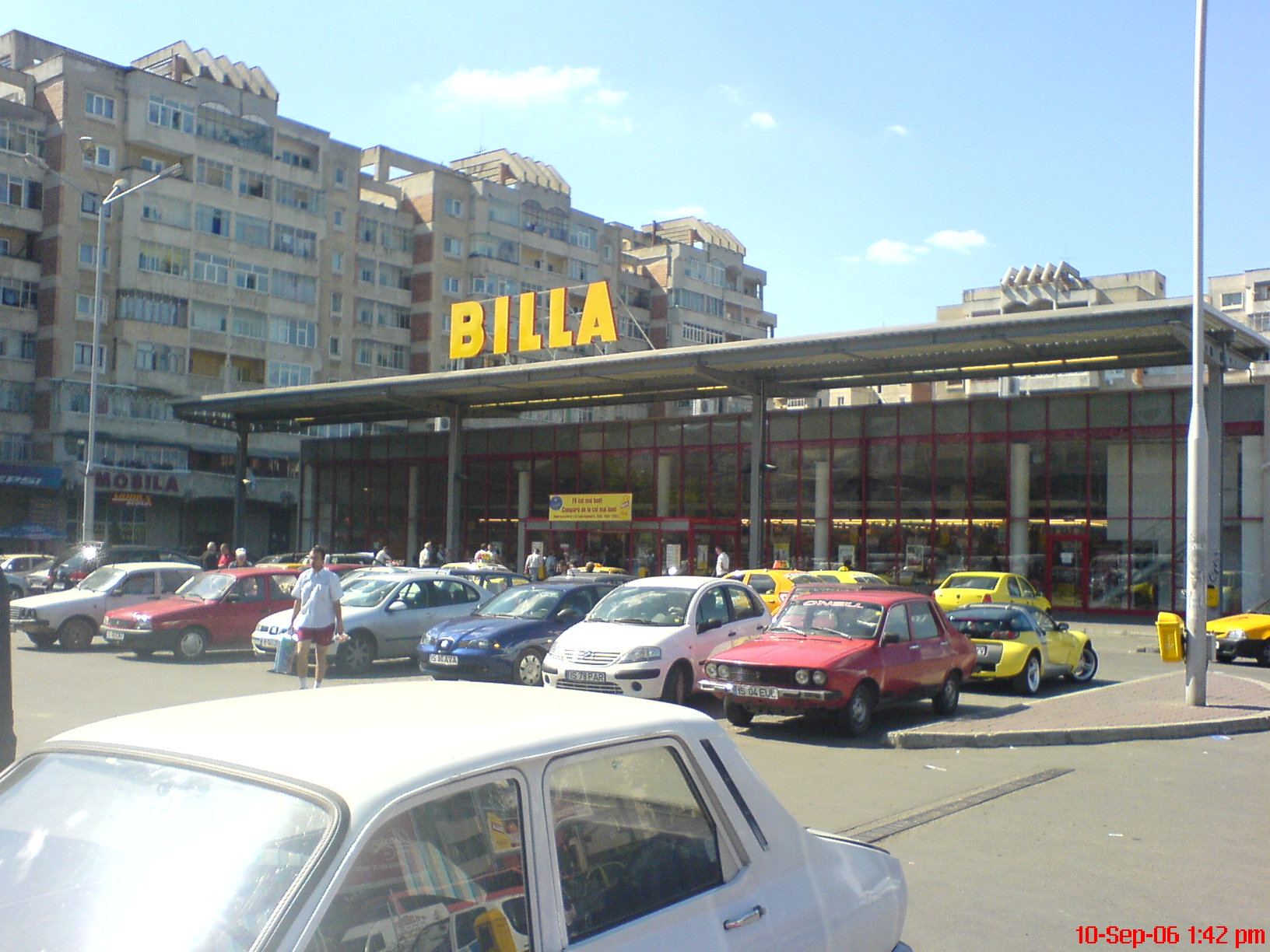 Billa Iasi - Romania